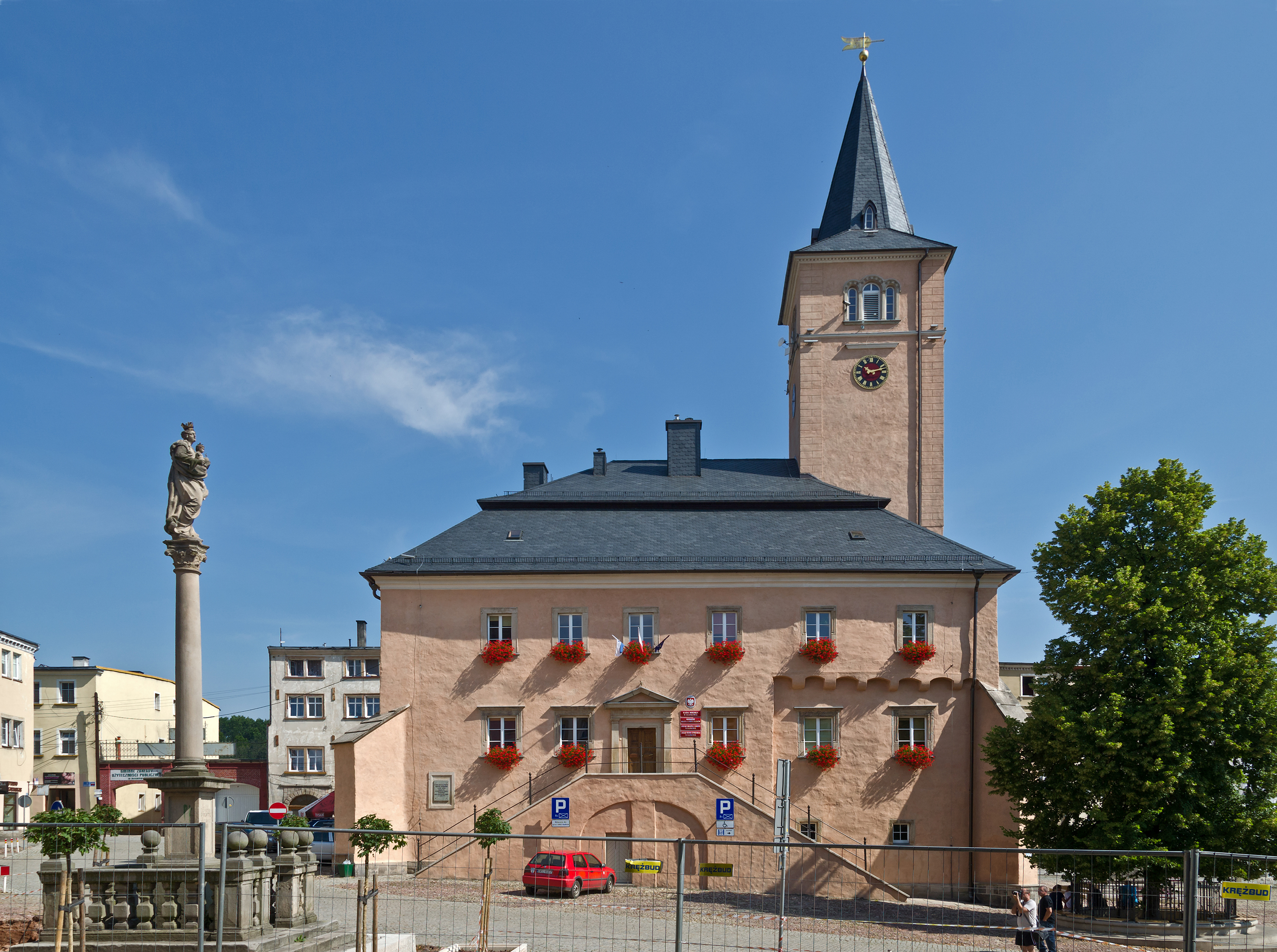 Town hall in Radków